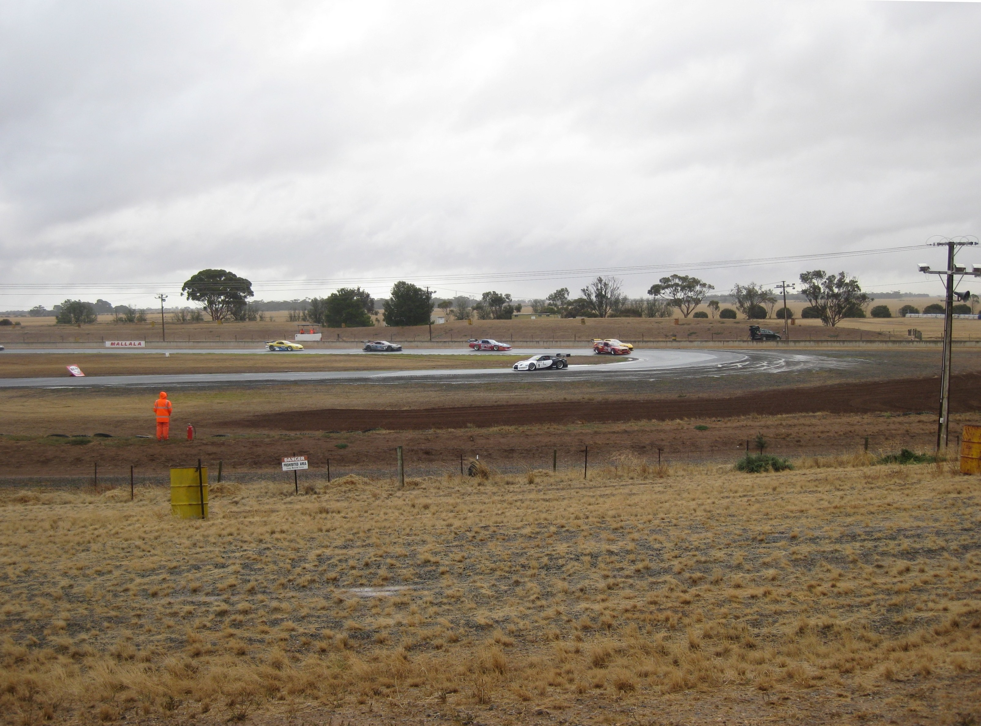 Northern Hairpin at Mallala Motors Sport Park. Image was taken during Round 2 of the 2013 Kerrick Sports Sedan National Series.